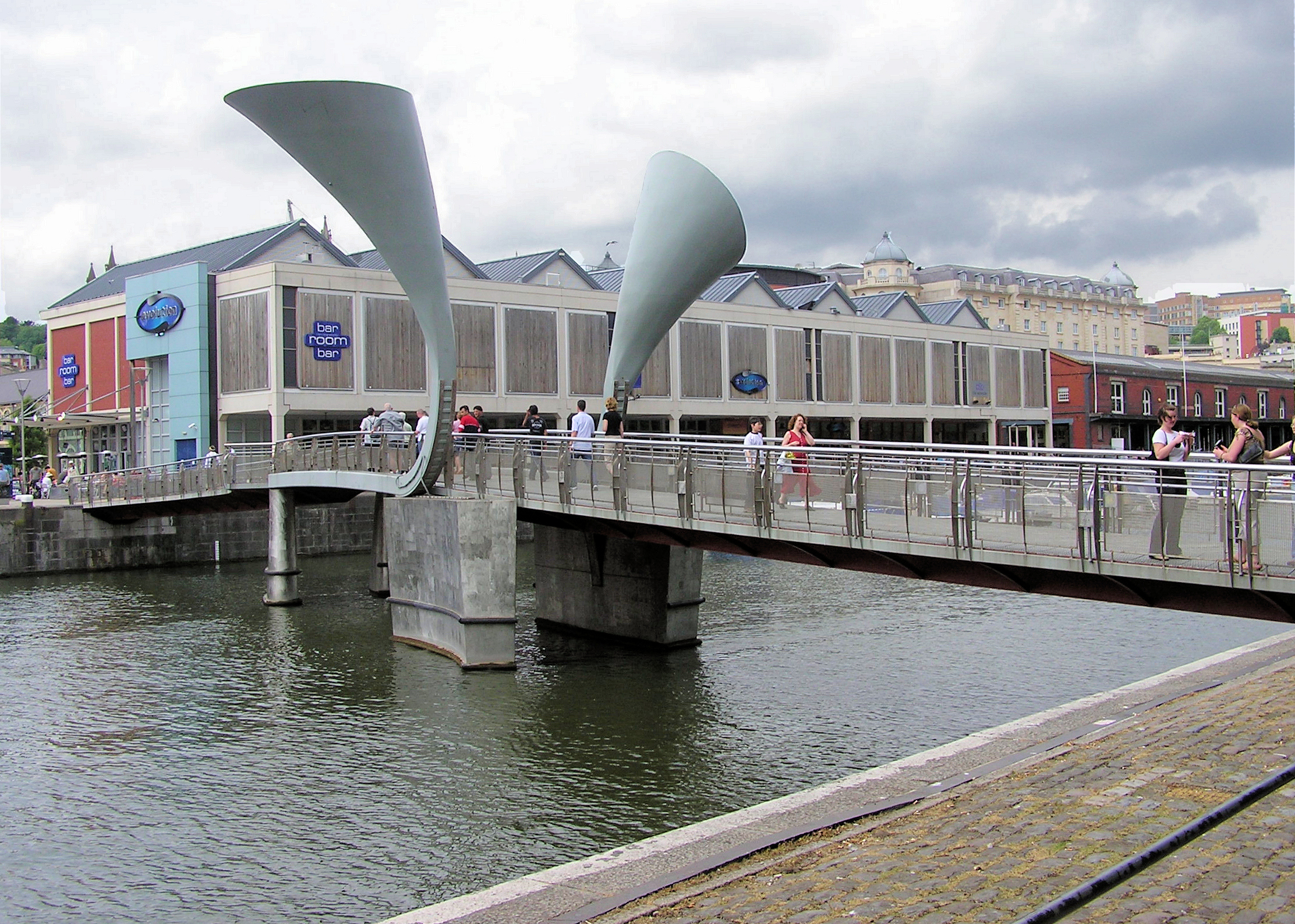 Pero’s Bridge, Bristol, England.